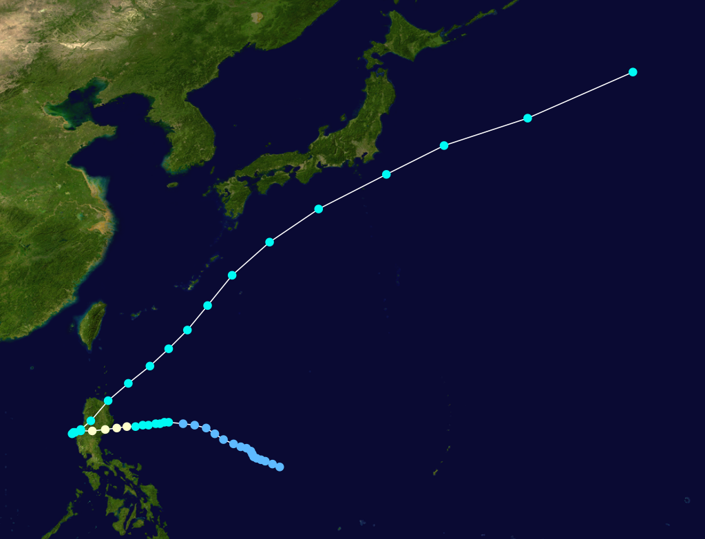 Typhoon Flo 1993 track. Uses the color scheme from the Saffir-Simpson Hurricane Scale.